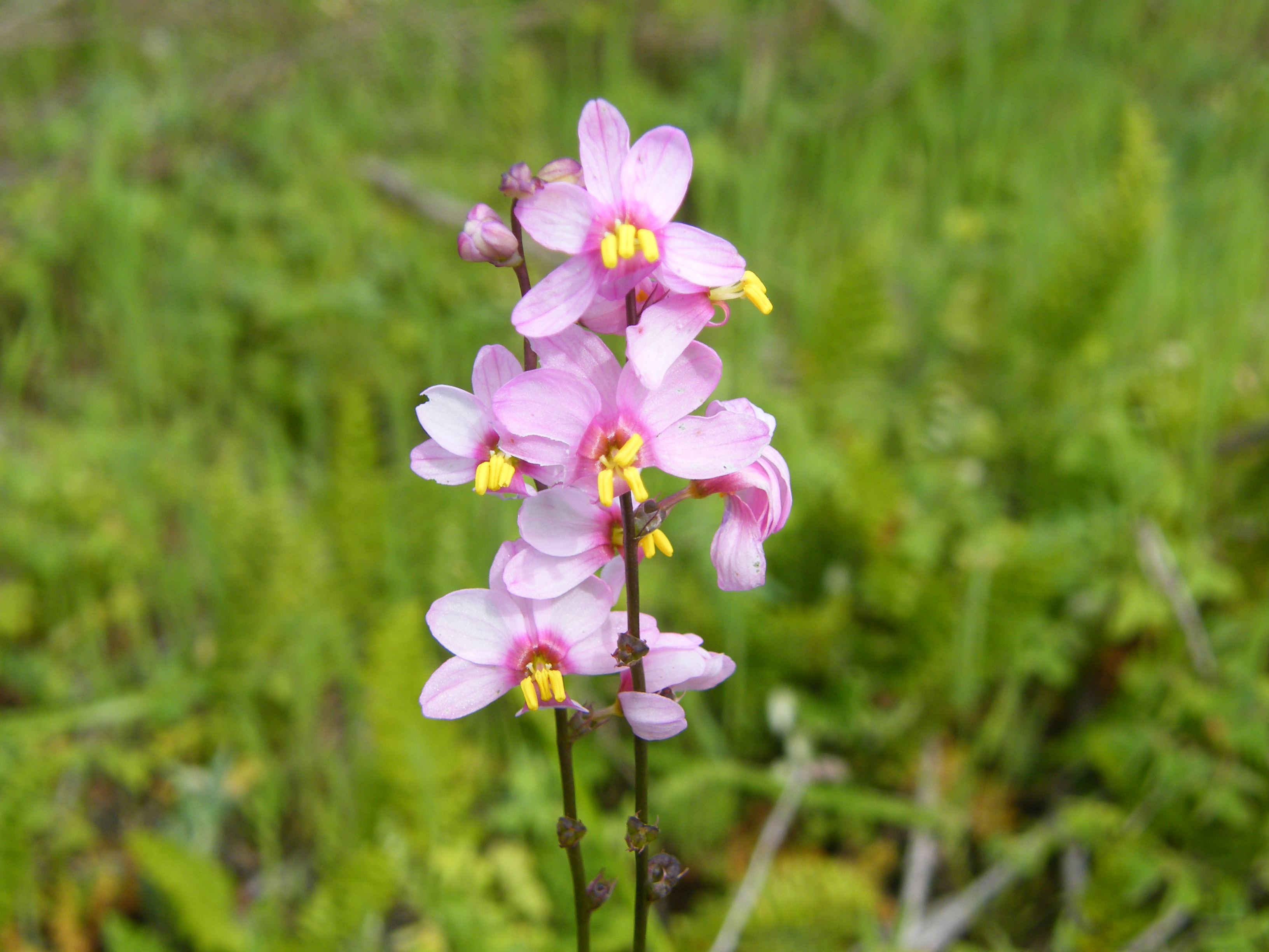 Western Cape